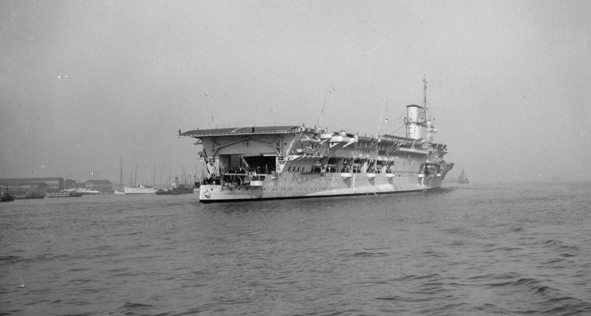 The Courageous Class fleet aircraft carrier HMS GLORIOUS.